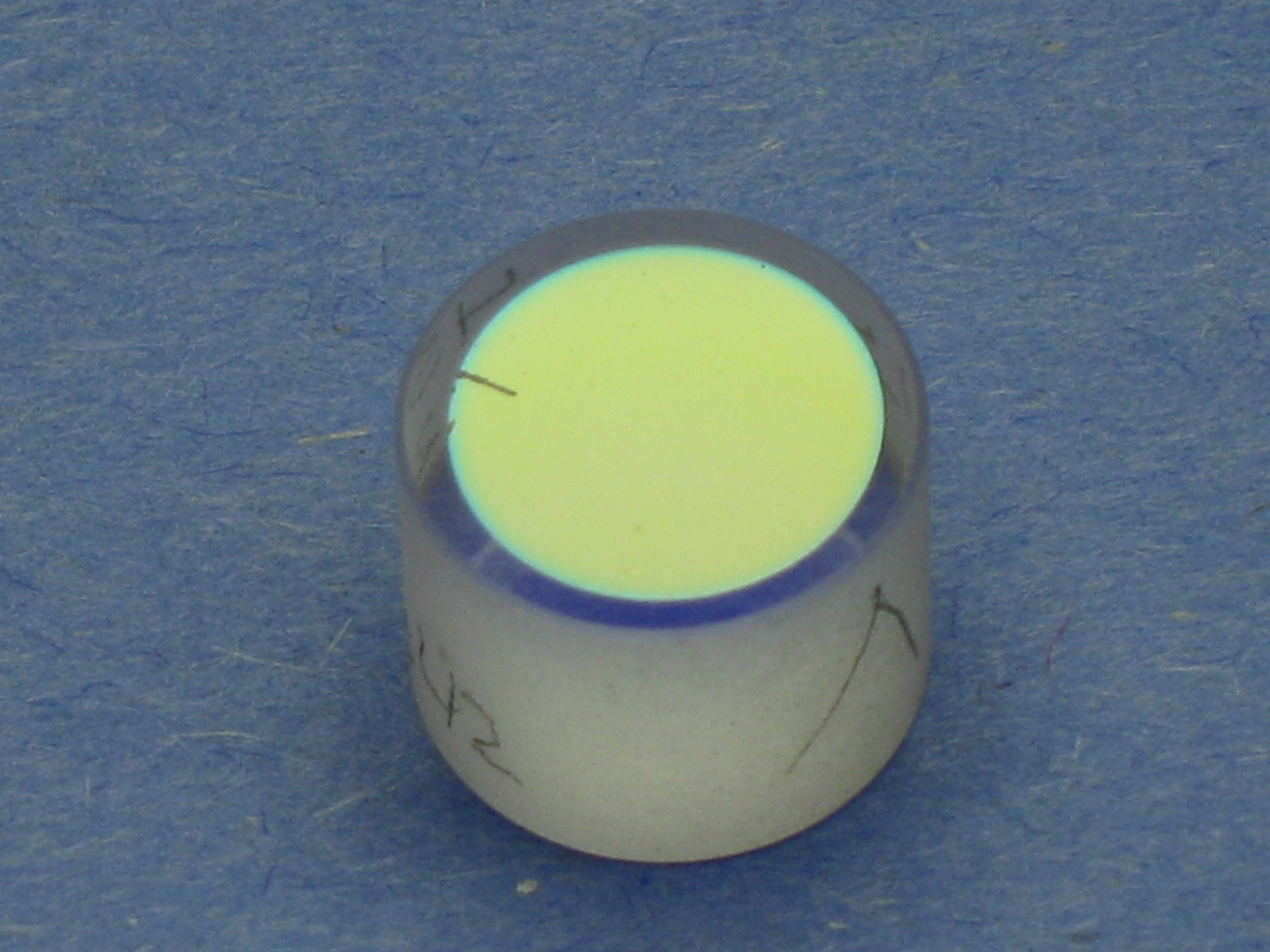 This dielectric coated mirror is from a dye laser. The coating on the fused quartz substrate is designed to be highly reflective, (over 99%), at 550 nanometers.